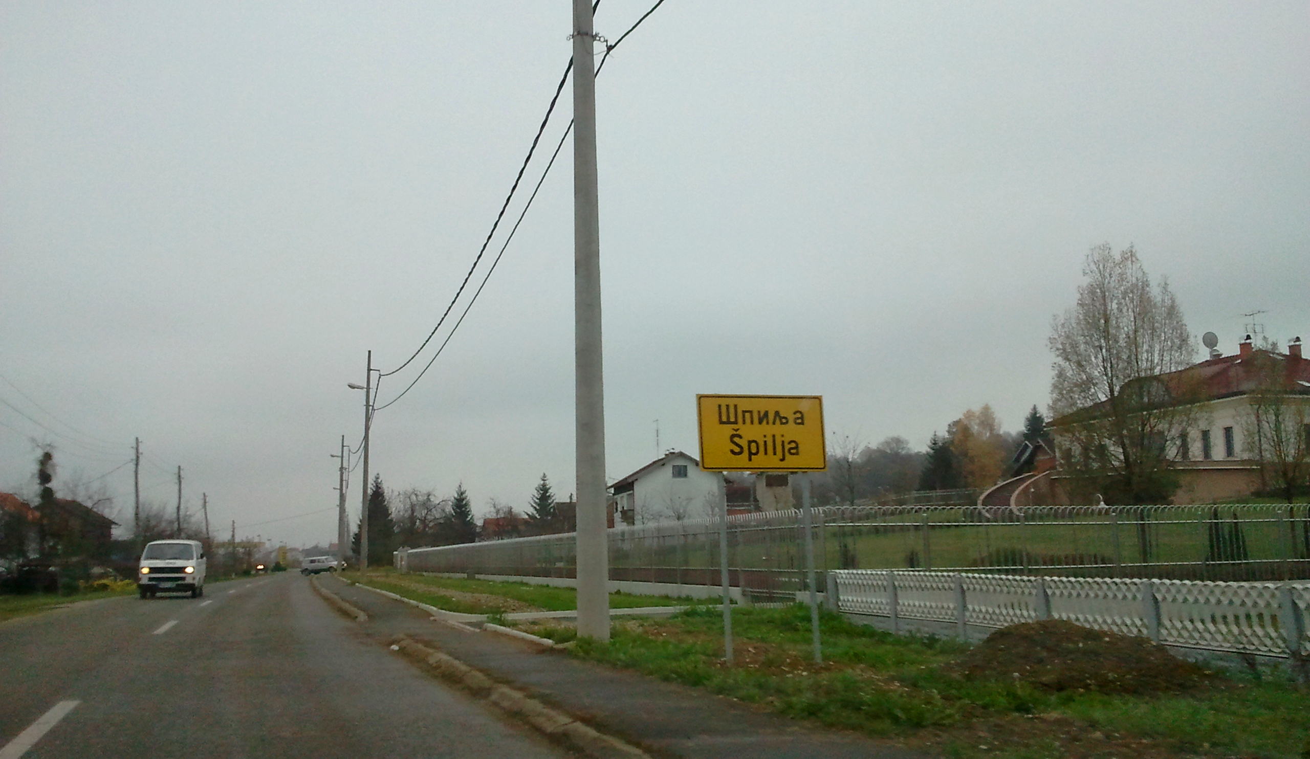 Village Špilja, Republika Srpska.